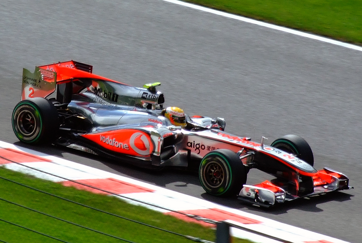 Lewis Hamilton McLaren MP4-25 2010 Belgian GP winner